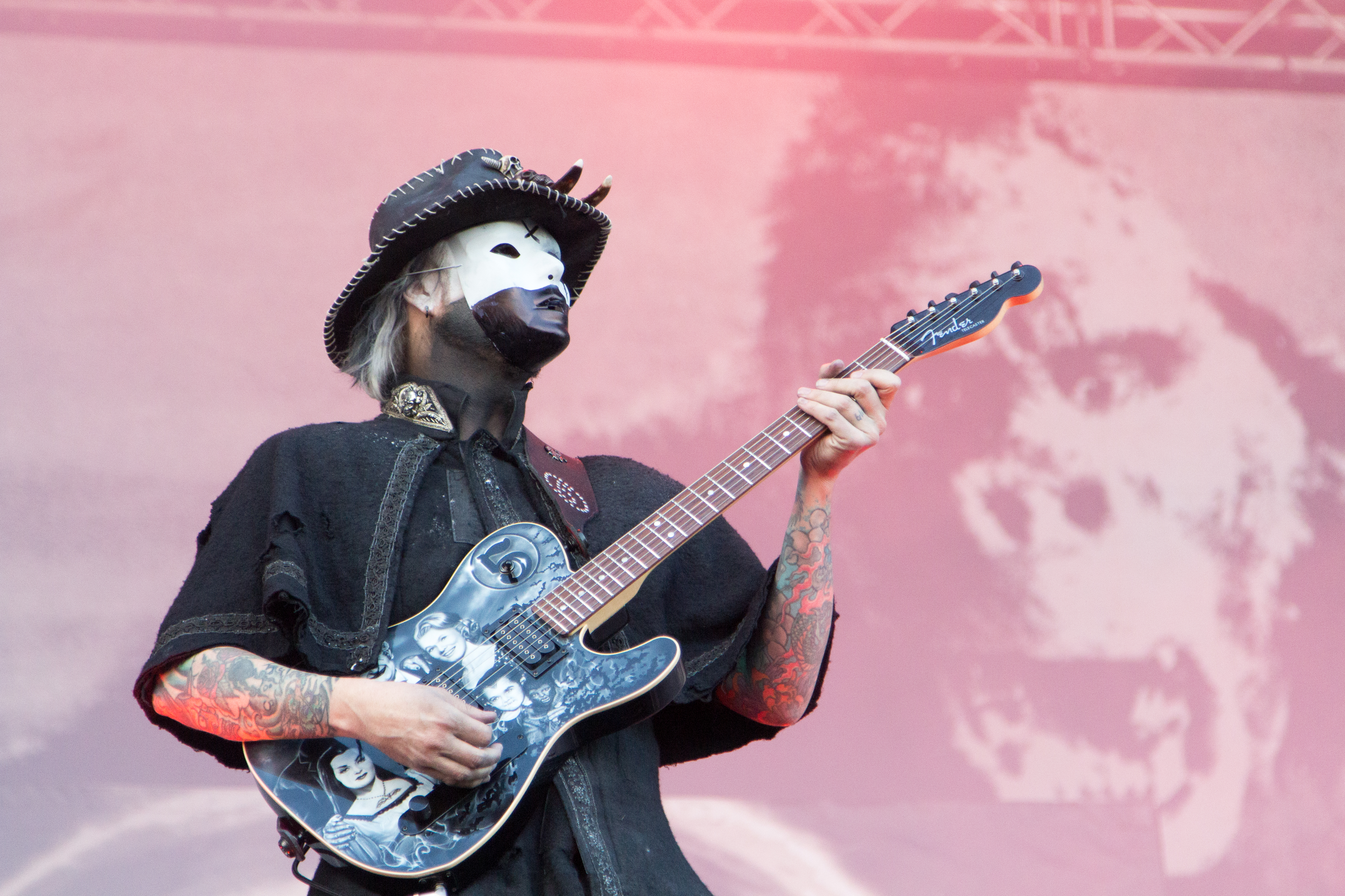 John 5 with Rob Zombie at Nova Rock 2014